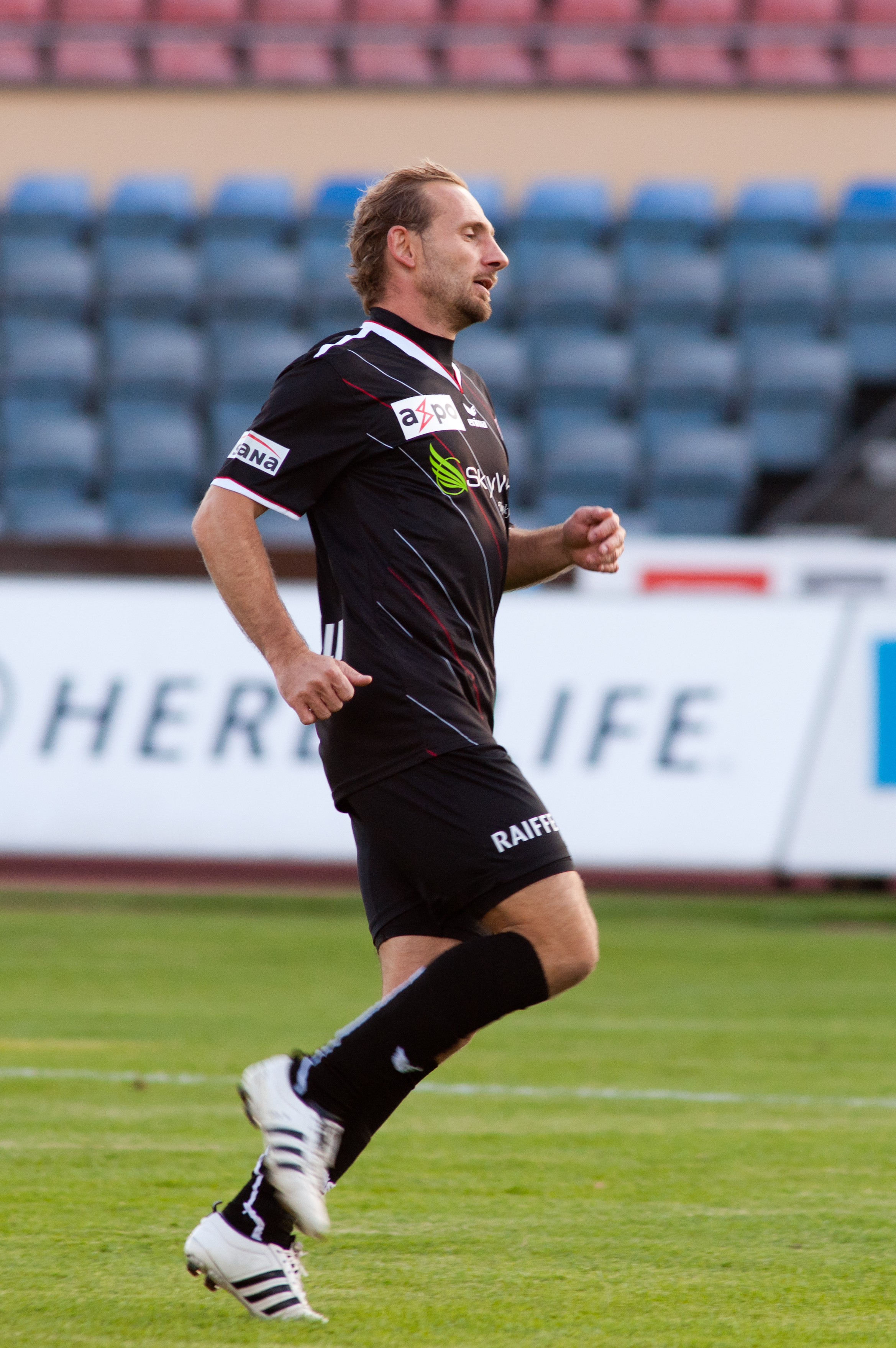 The making of this document was supported by Wikimedia CH. (Submit your project!) For all the files concerned, please see the category Supported by Wikimedia CH. Lausanne Sport vs. FC Thun - 22.10.2011